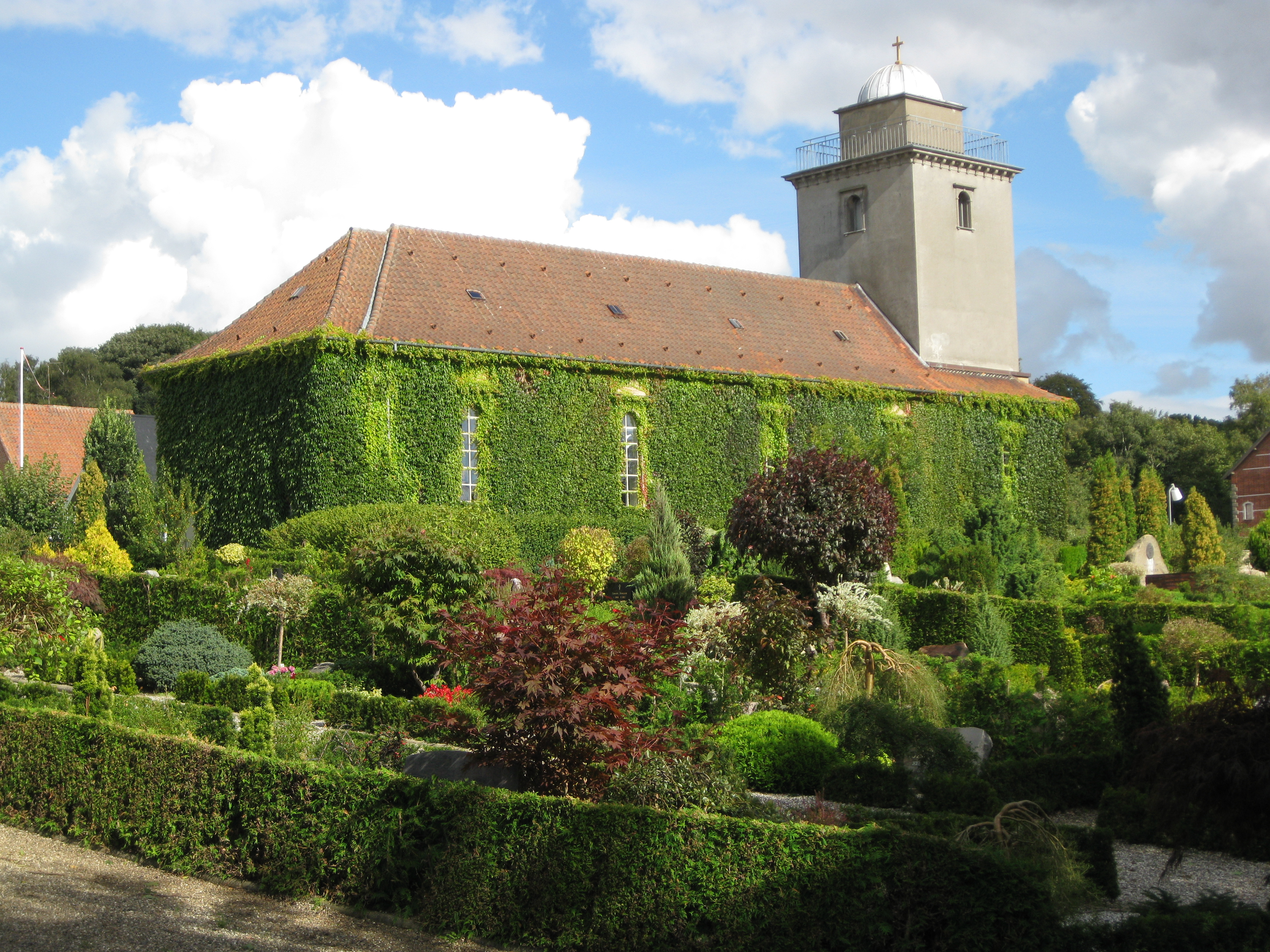 The church "Sct. Pauls Kirke" in the small town "Hadsten". The town is located in East Jutland, central Denmark.